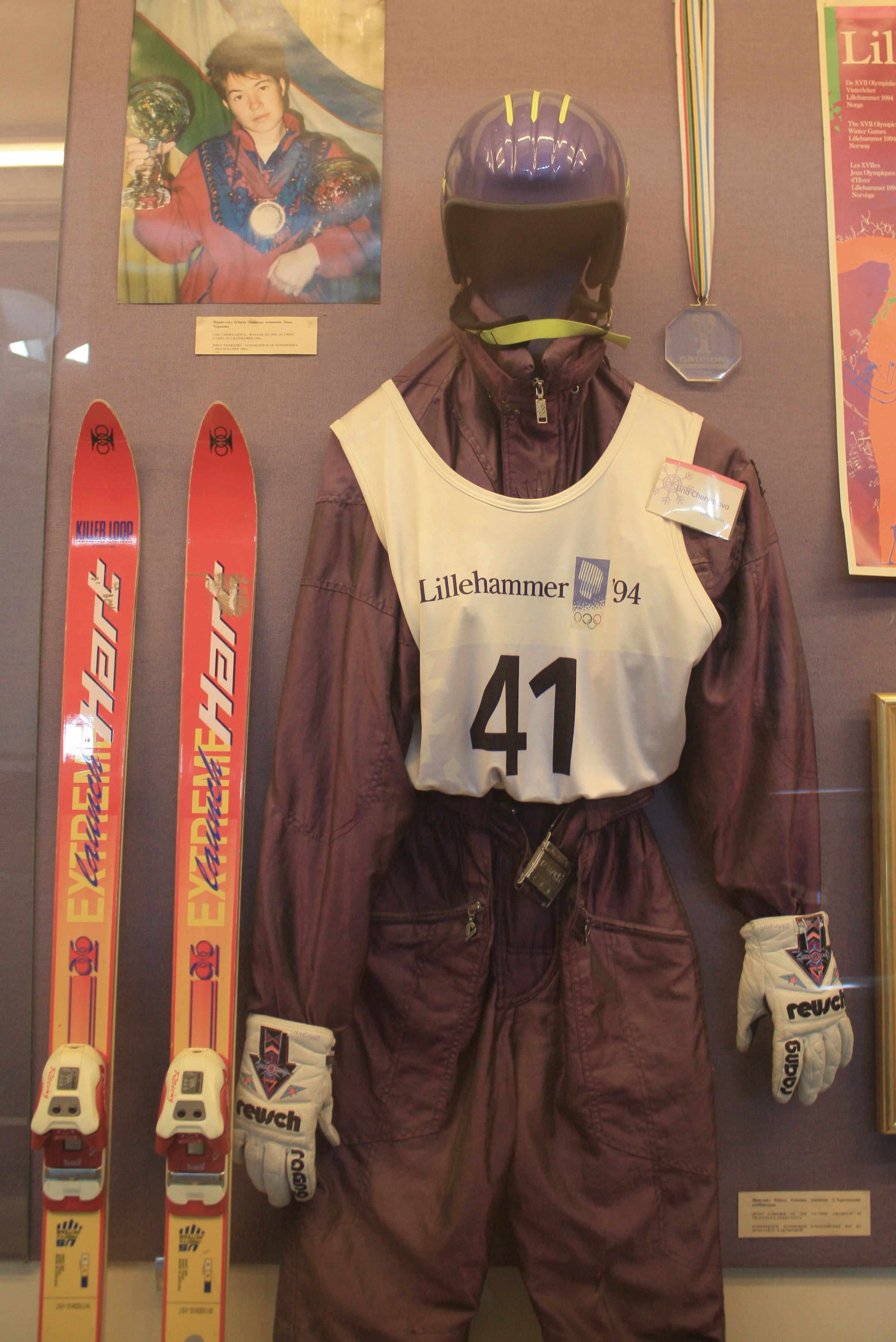 Lina Cheryazova's skis, helmet, suit and gloves with which she won a Gold medal in freestyle ski jumping at the 1994 Olympic Games in Lillehammer. Exhibited at the Museum of Olympic Glory in Tashkent (Uzbekistan).